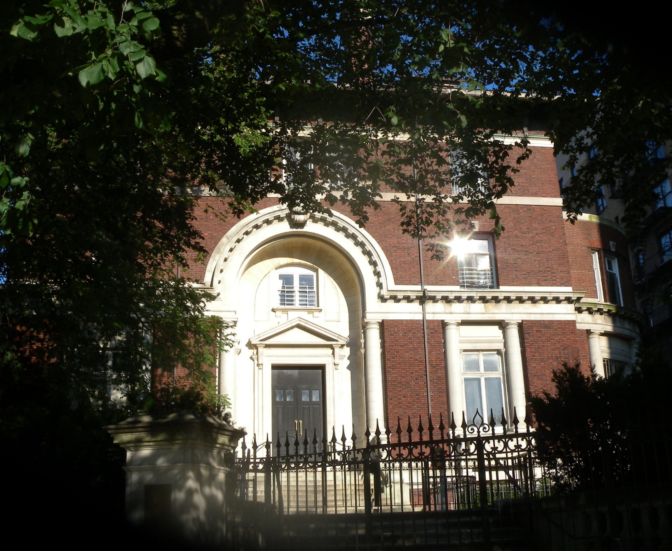 Looking southeast from RSD at former Rice mansion on a sunny late afternoon.